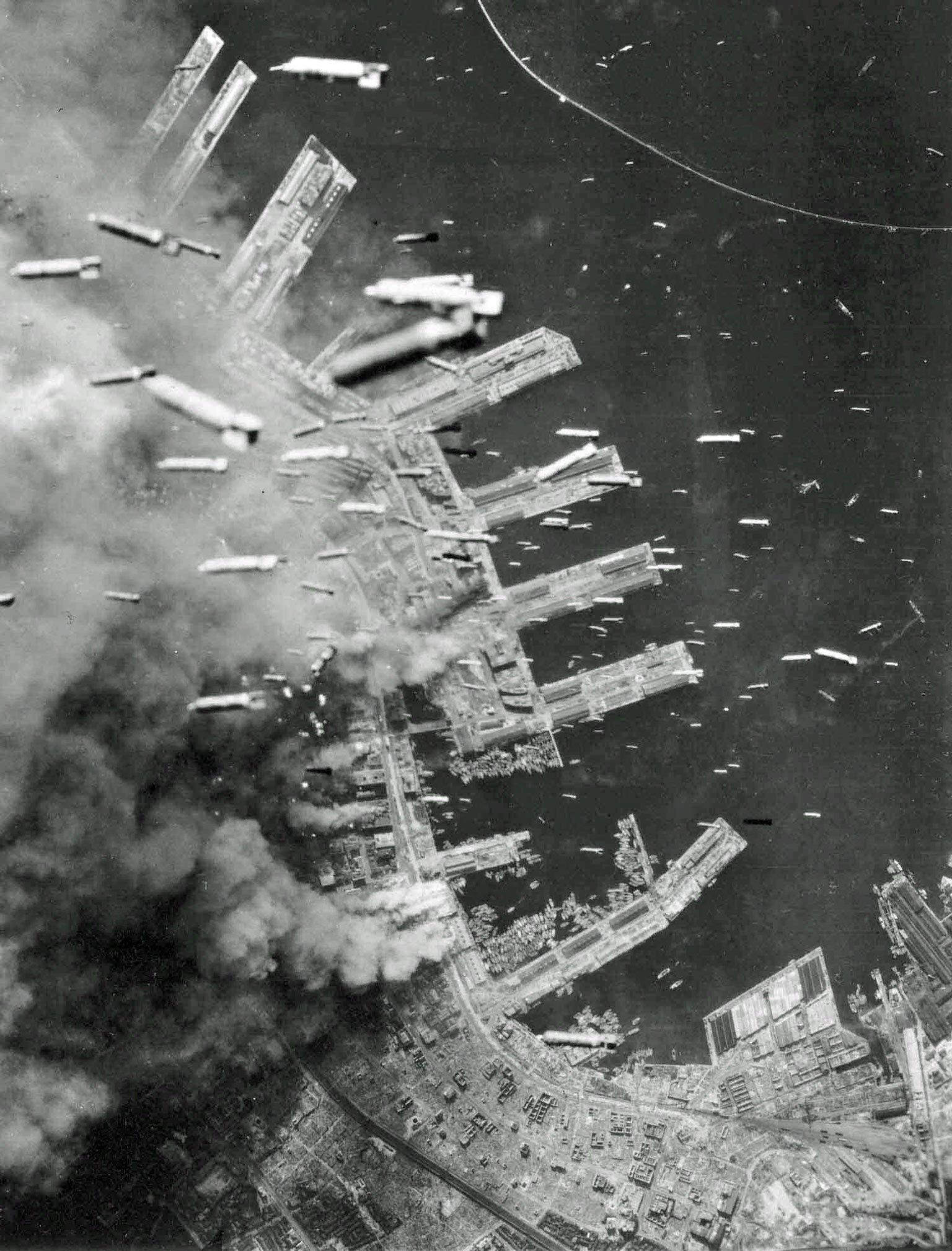 Incendiary bombs are dropped over the city of Kobe, Japan from American B-29 Superfortresses, as the landing piers and buildings of the city are burning below, 4 Jun 1945